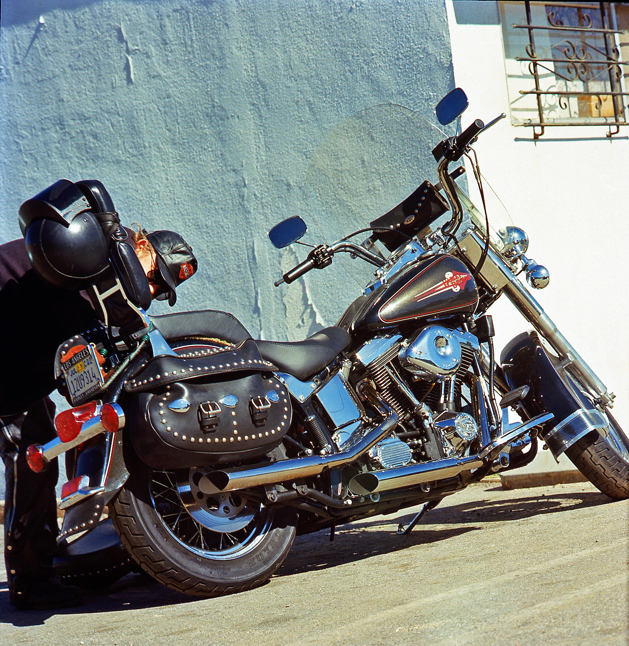 Harley-Davidson motor cycles